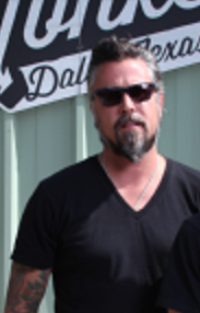 Businessman/reality TV star Richard Rawlings